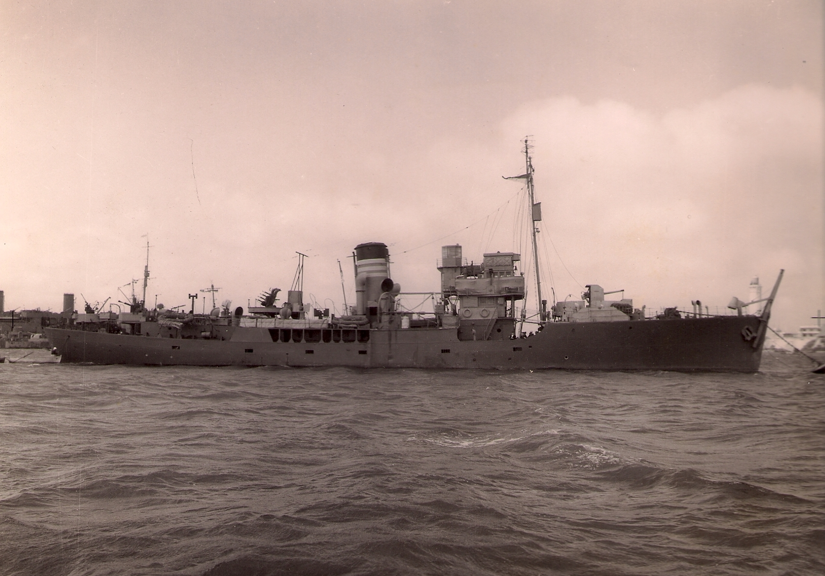 The HMS Dephinium (K77), a flower class corvette, in port in the Mediterranean. Photograph was taken, prior to refitting (when the mast was placed behind the wheelhouse). She is fitted with an 'acoustic hammer' on the bow. This arrangement consisted of an A-frame and a bucket which was lowered into the water. A Kango jackhammer was placed inside the bucket. The concussion created was intended to detonate acoustic mines nearby.